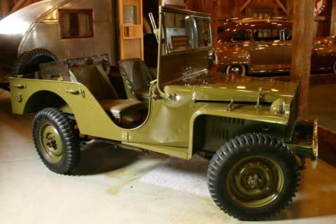 1941 American Bantam Jeep Prototype photographed by DougW of at the Gilmore Car Museum in Hickory Corners, MI.